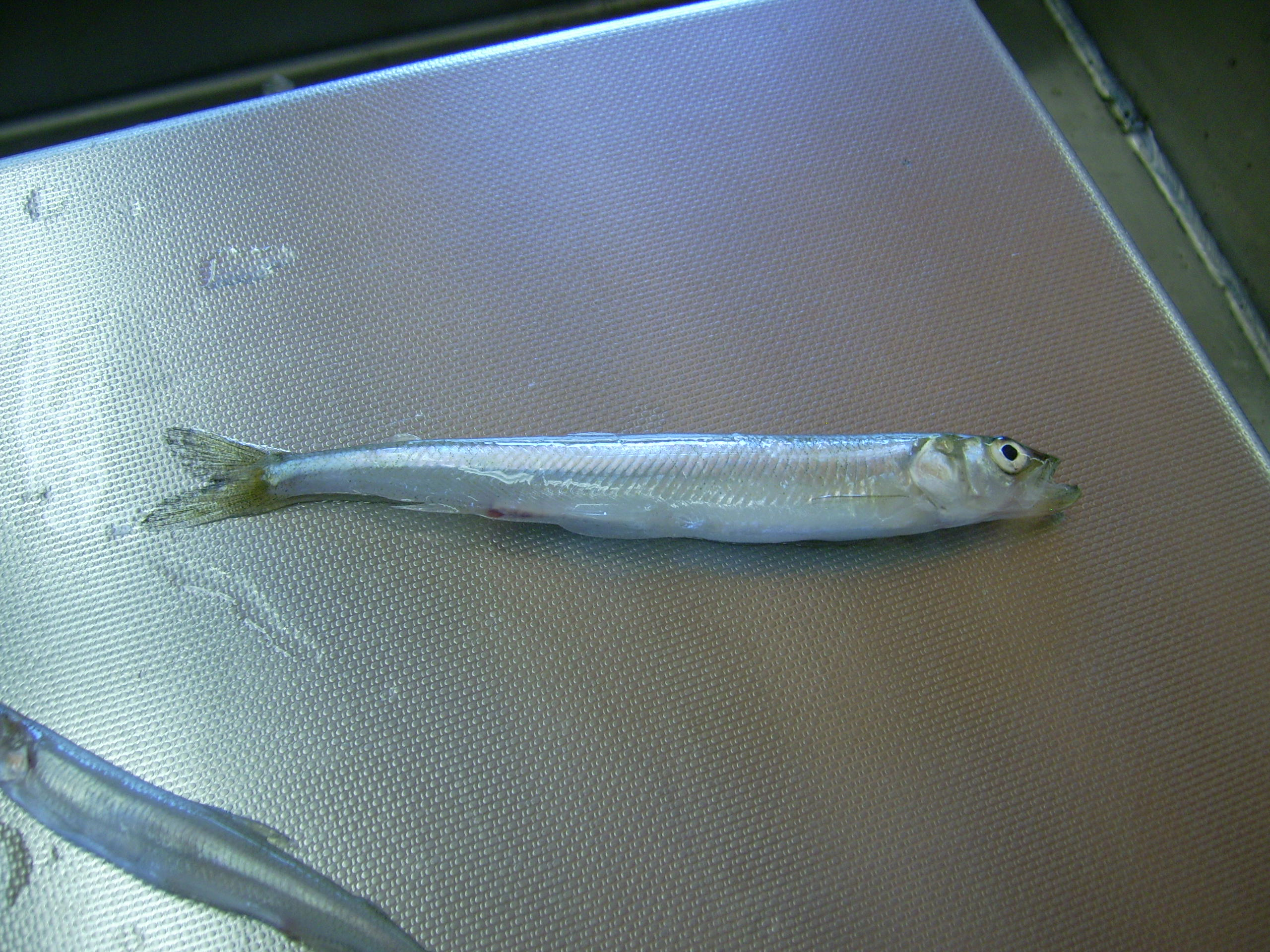 Rainbow smelt (Osmerus mordax), Goulais Bay, Lake Superior. Introduced species.